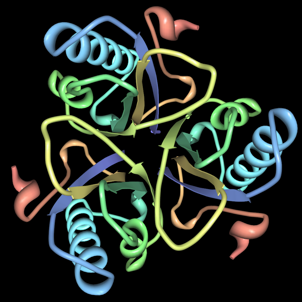 Crystal structures of the monofunctional chorismate mutase from Bacillus subtilis and its complex with a transition state analog. Chook, Y.M., Ke, H., Lipscomb, W.N.